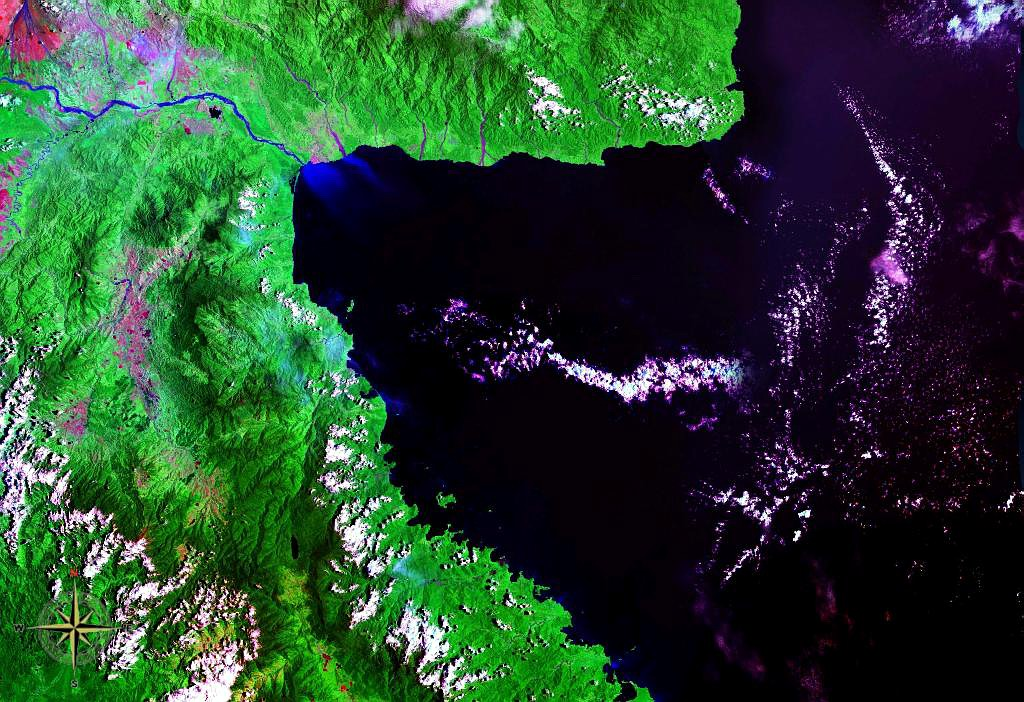 Huon Gulf in Papua New Guinea. Satellite view.